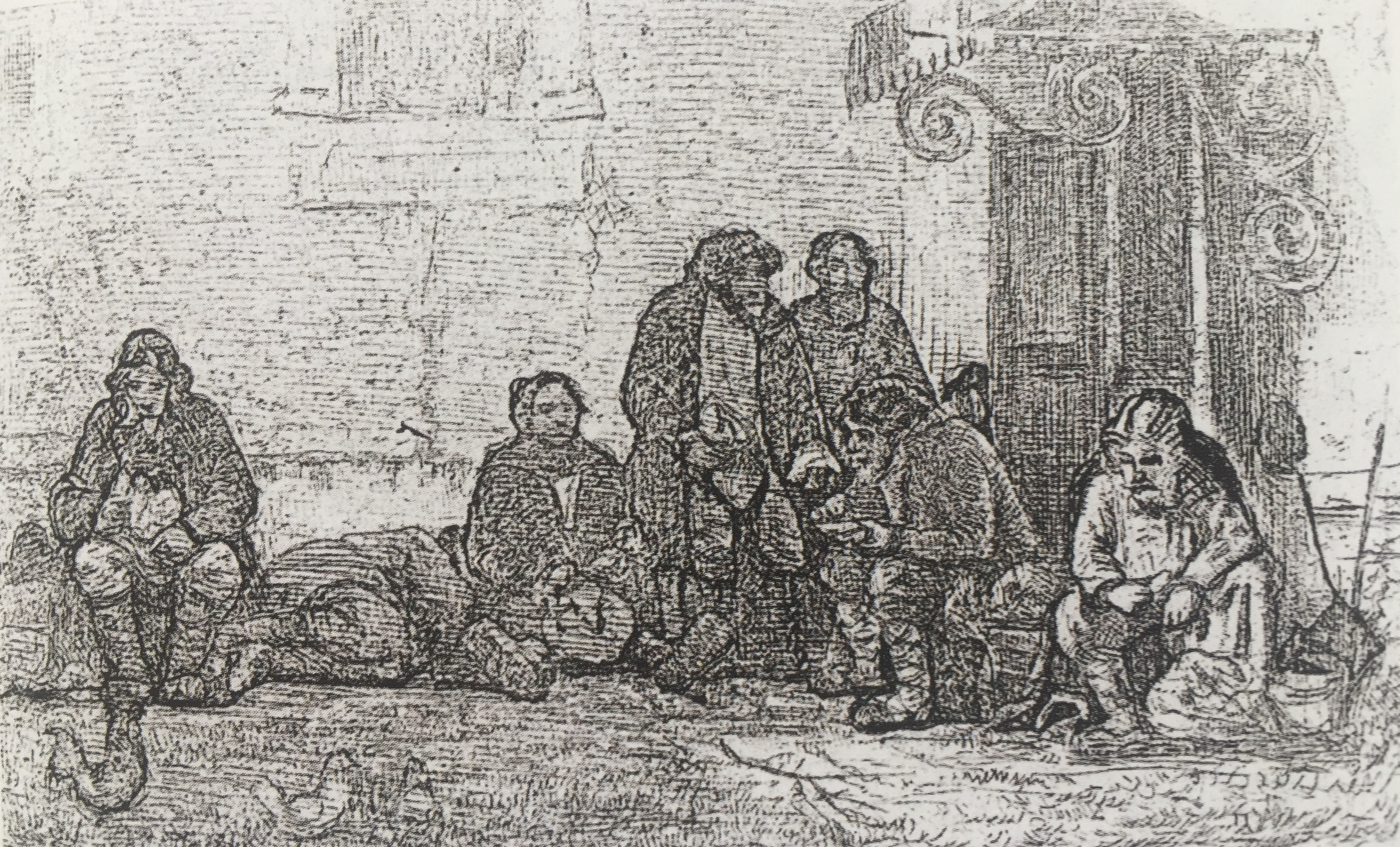 The Zemstvo at lunch (engraving after the 1872 painting by Grigoriy Myasoyedov)